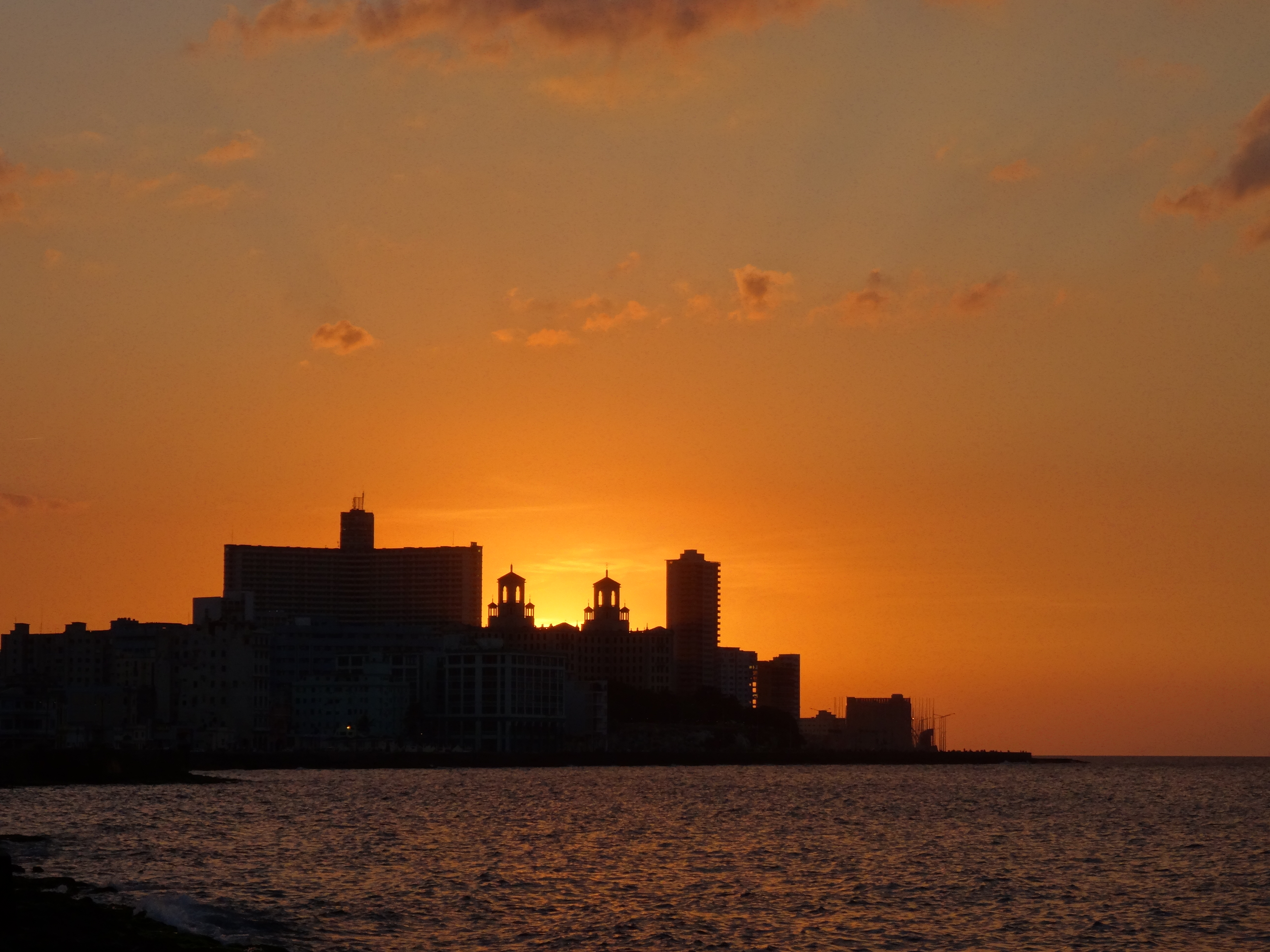 Cuba, Havana, Sunset over Hotel Nacional, 2014